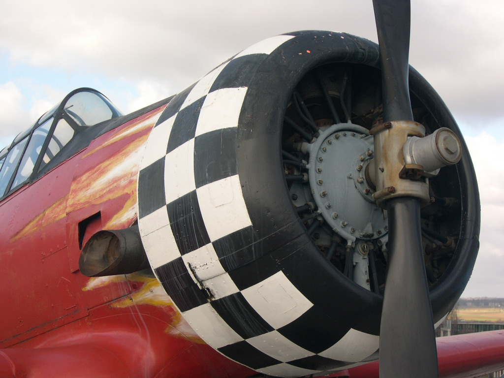 Historic aircraft on the terrace at Stuttgart airport.